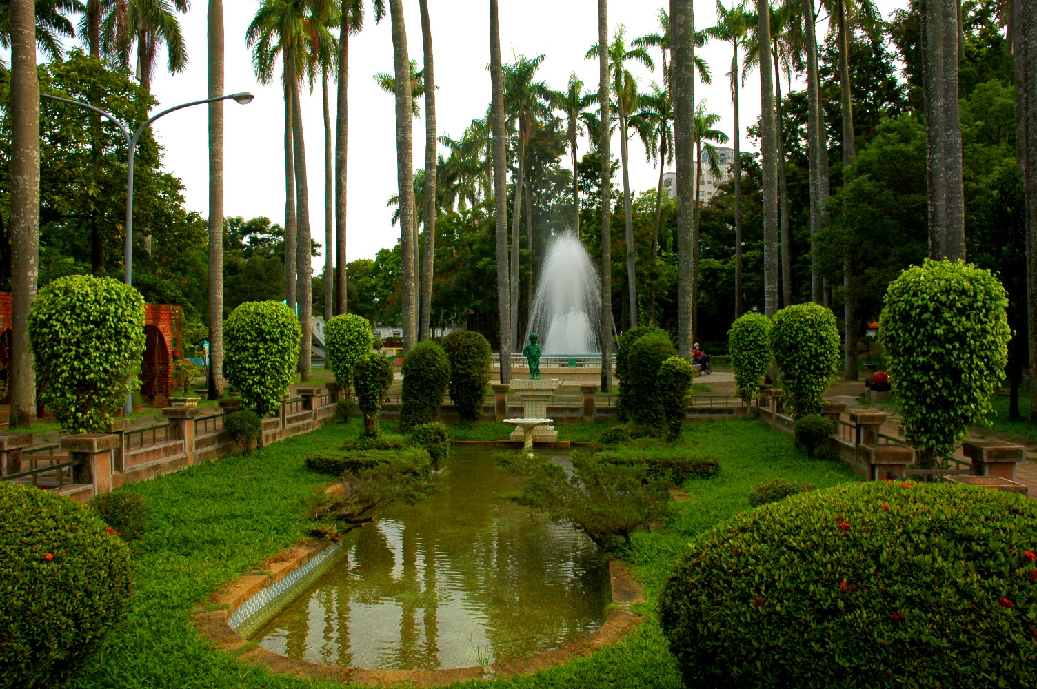 Chia Yi Park Fountain Garden